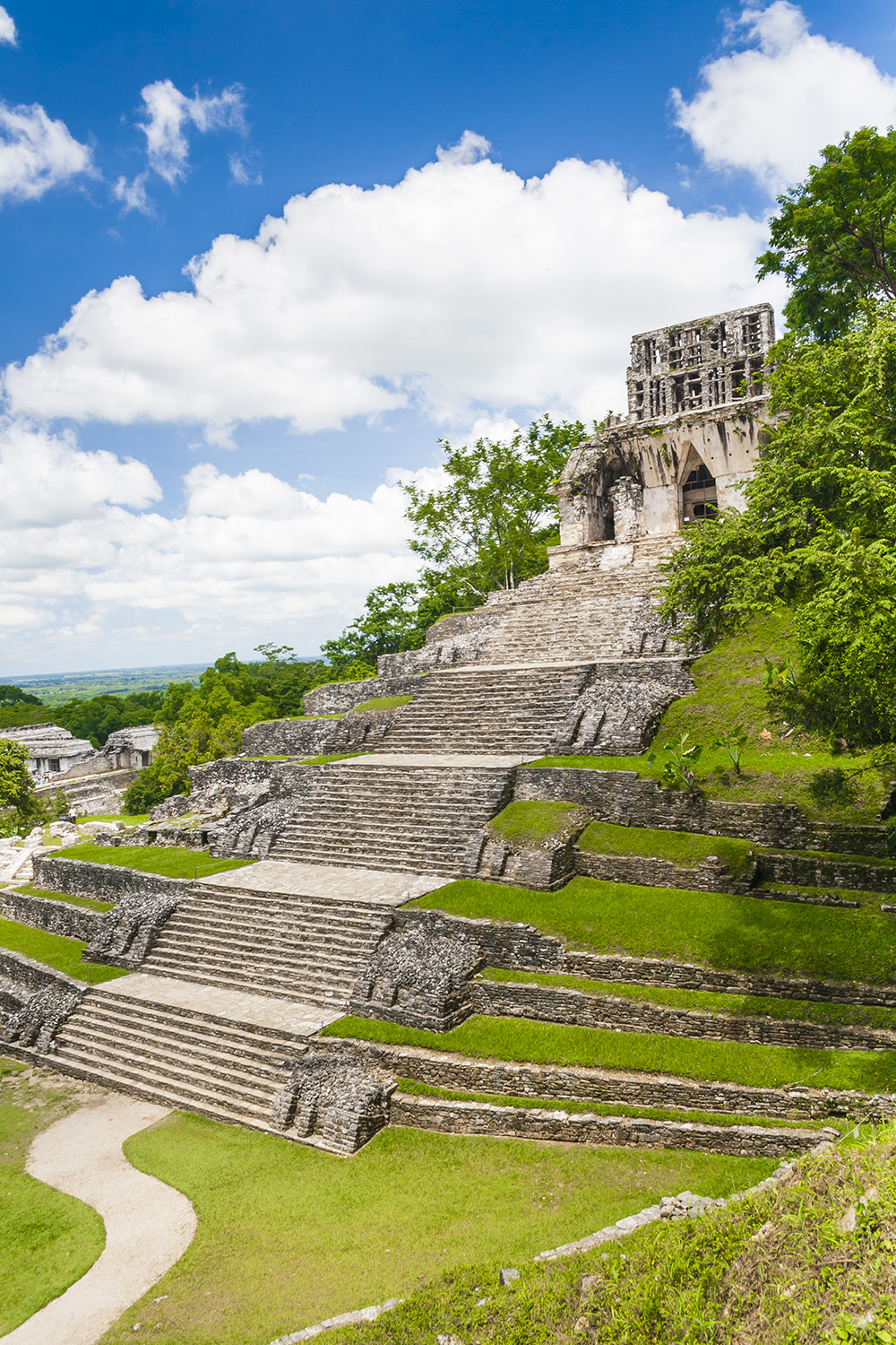 Temple of the Cross